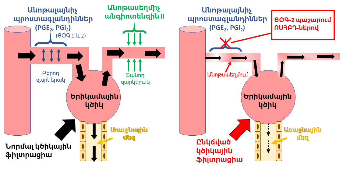 Glomerular filtration and the role of NSAIDs, schematic representation